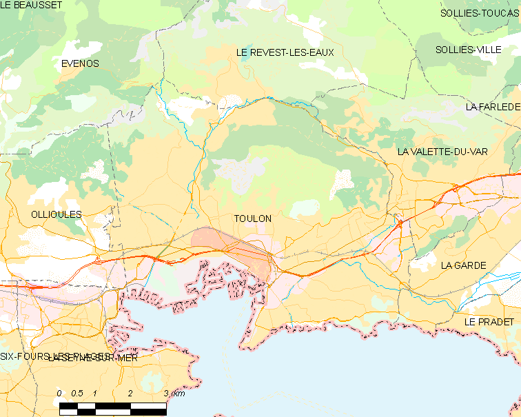 Map of French municipality Toulon